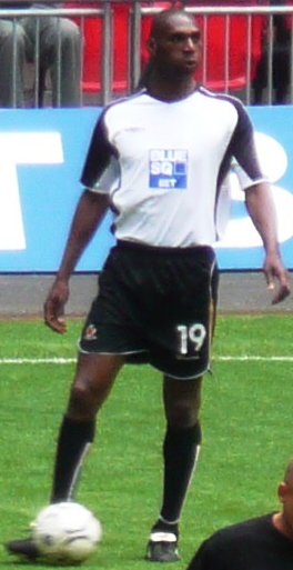 Leo Fortune-West. Image cropped from original at flickr.